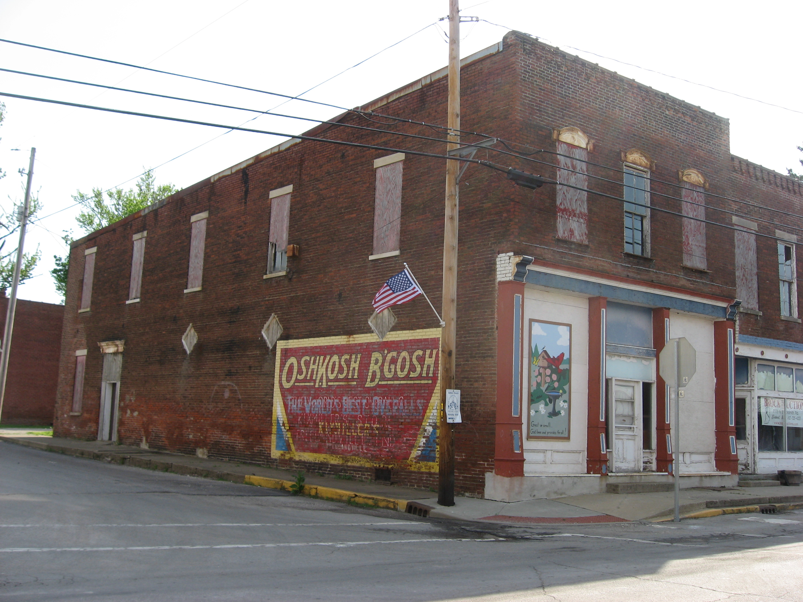 Front and southern side of the original portion of Kixmiller's Store, located on the northern corner of the intersection of Carlisle (State Road 58) and Indiana Streets in downtown Freelandville, Indiana, United States. Built in 1866, it is listed on the National Register of Historic Places.